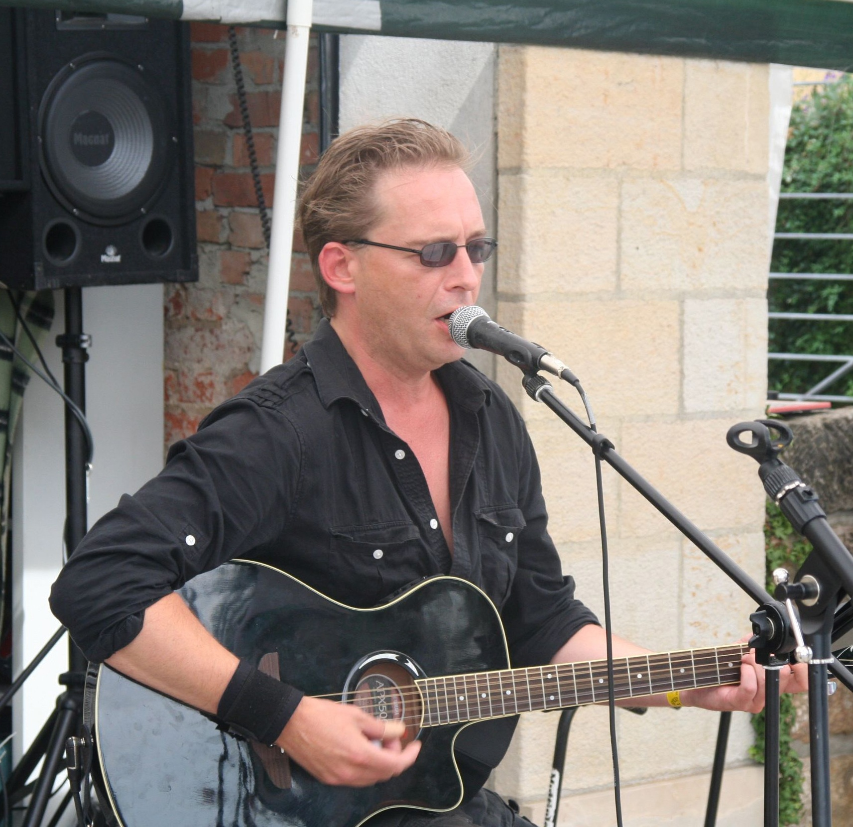 Frank "Dr. Pichelstein" Bröker, born 1969, German musician, componist and writer